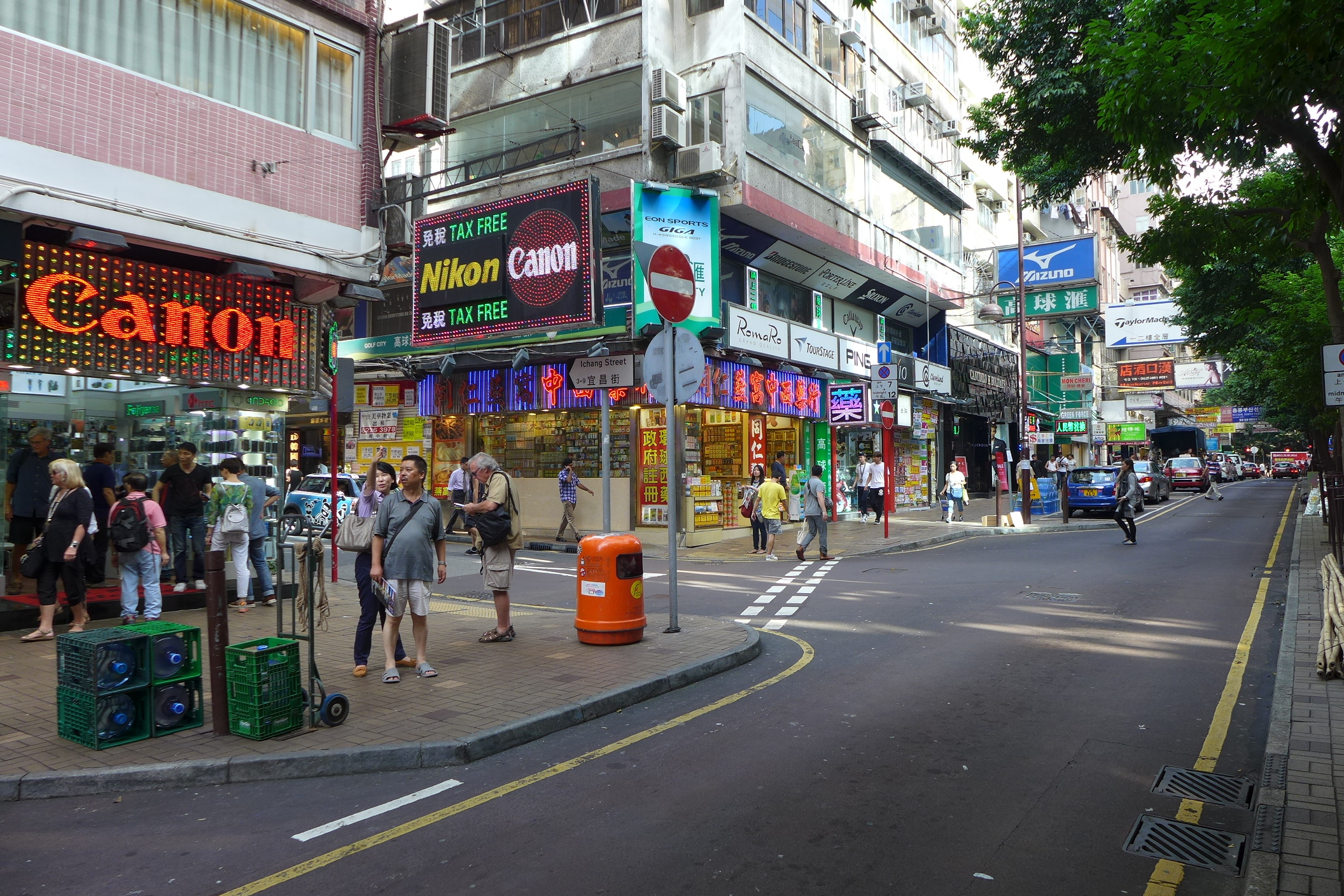 Hankow Road at its intersection with Ichang Street